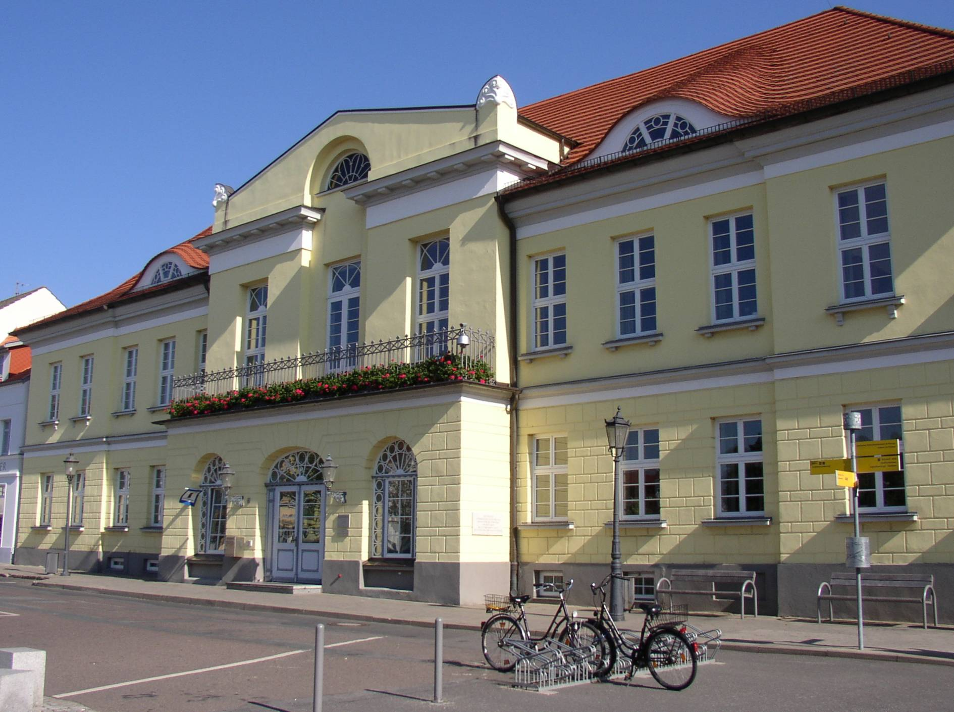 Town hall in Ribnitz-Damgarten in Mecklenburg-Western Pomerania, Germany